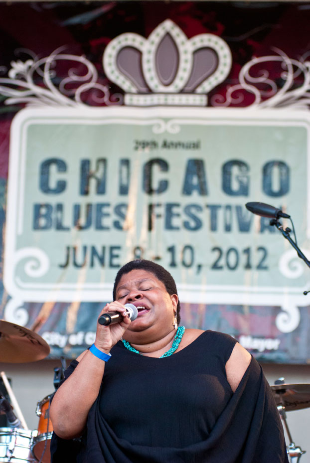 Deitra Farr performs at the Annual Chicago Blue Festival on June 10, 2012. Photo by Adam Bielawski